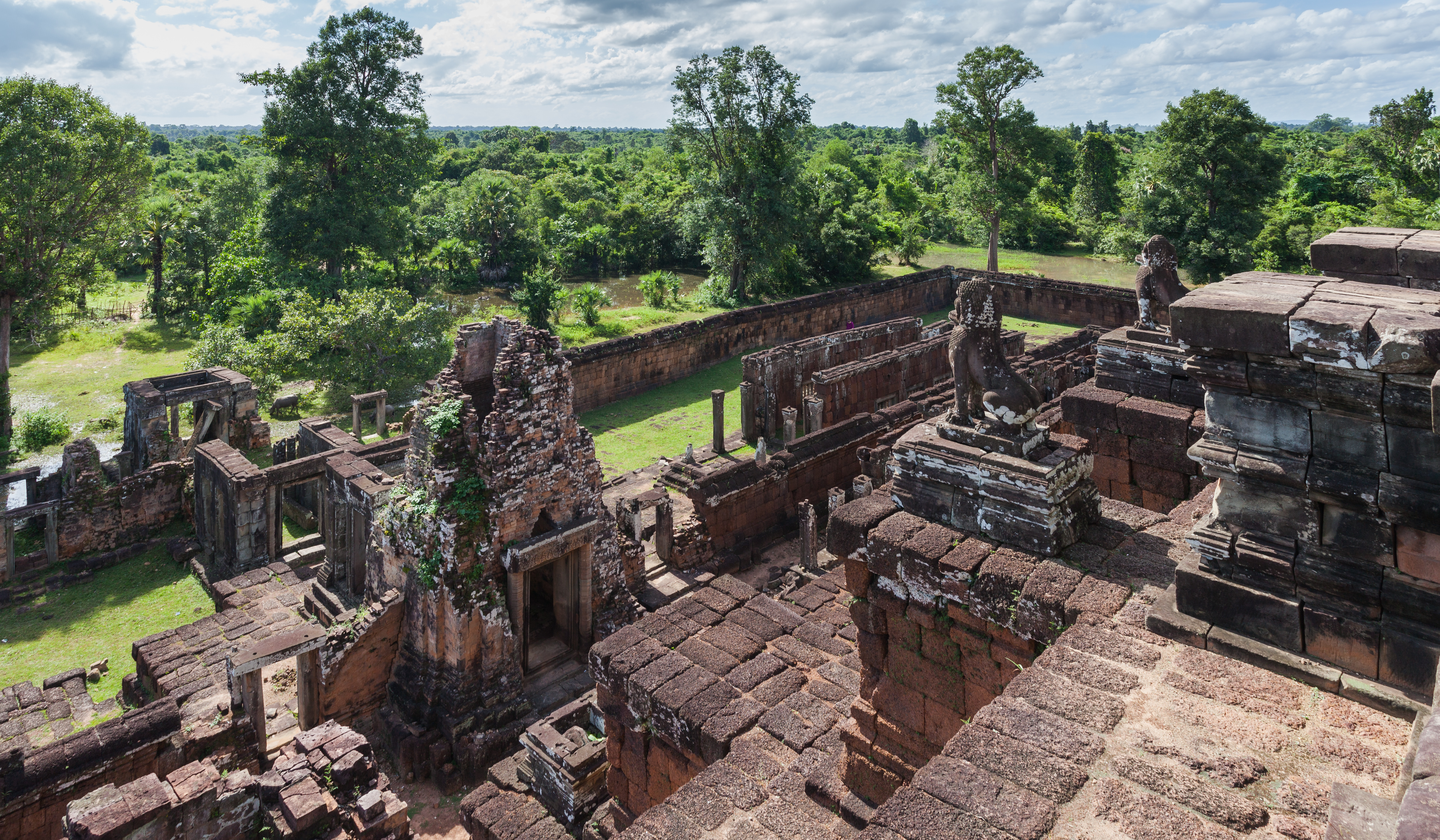 Pre Rup, Angkor, Cambodia